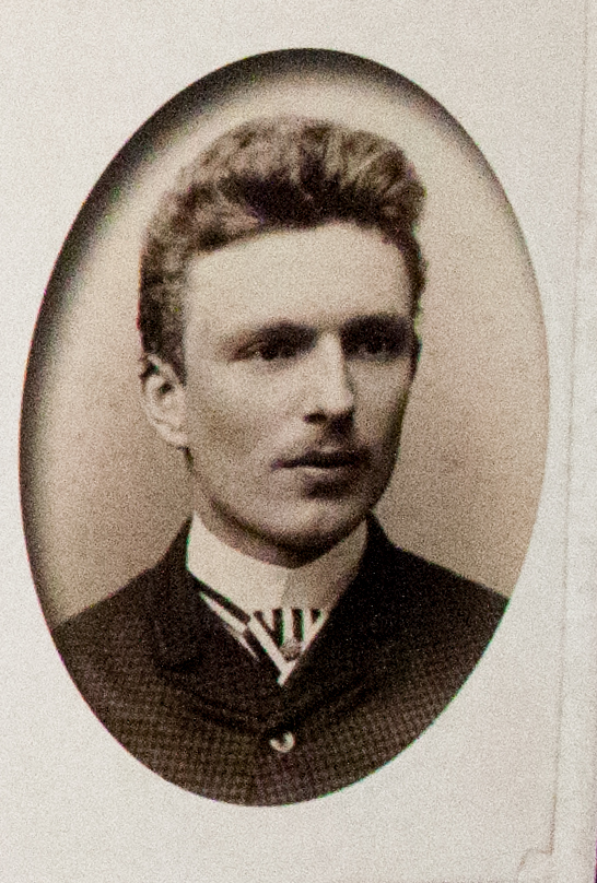 Cornelis Vincent (Cor) van Gogh (1867-05-17 - 1900-04-24)